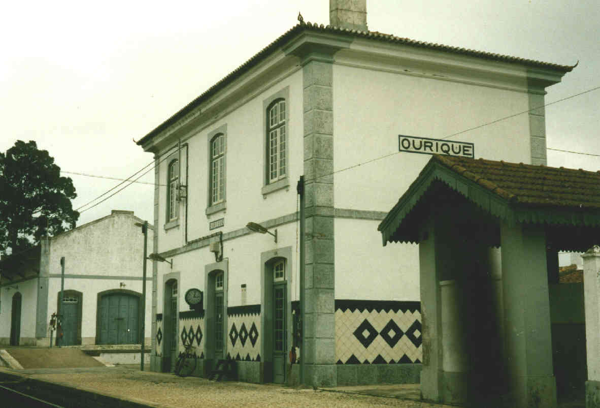 Train Station of Ourique